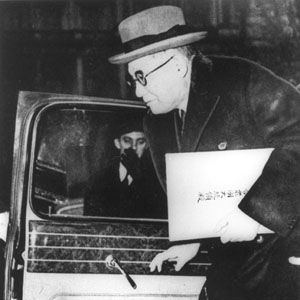 Japanese Ambassador Admiral Kichisaburō Nomura (1877–1964) presents his credentials to President Roosevelt at White House.